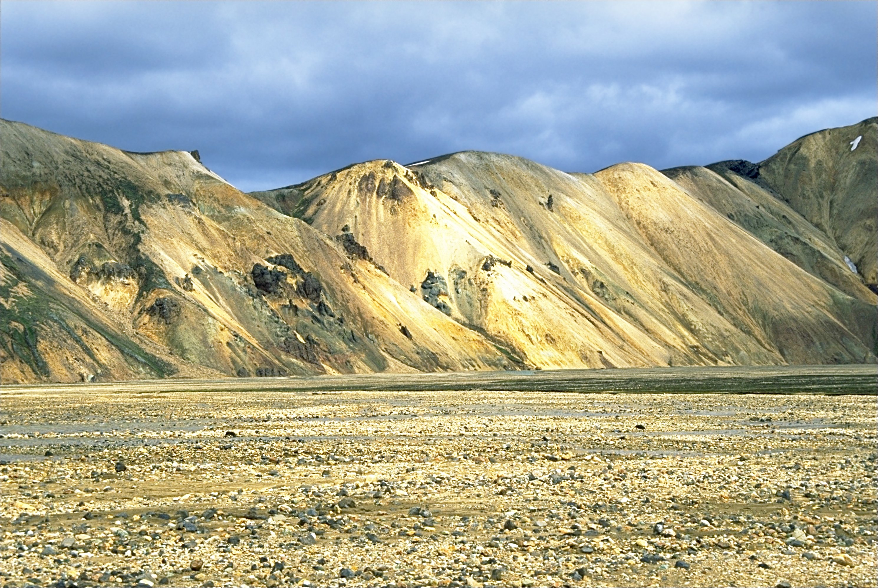 Coloured hills at Landmannalaugar Photo was taken using the following technique: Film: Fuji Velvia Lens: 4/35-70 Filter: Body: Minolta Dynax 7 Support: Manfrotto 190B Image with Information in English Bild mit Informationen auf Deutsch